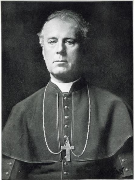 Mt. Rev. Patrick William Riordan, second Archbishop of San Francisco